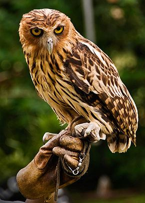 A Philippine Eagle-Owl (Bubo philippensis) at Malagos Garden Resort, Davao City, Philippines.